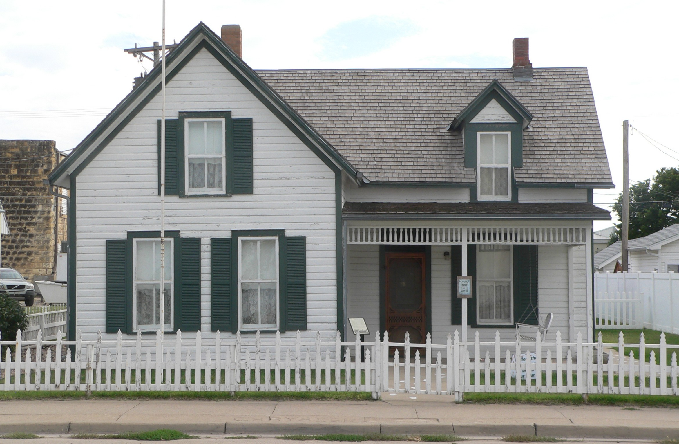 Walter P. Chrysler boyhood home, located at 104 W. 10th Street in Ellis, Kansas; seen from the north, across 10th.